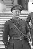 Francis Austin Walker, Member of the Legislative Assembly of Alberta